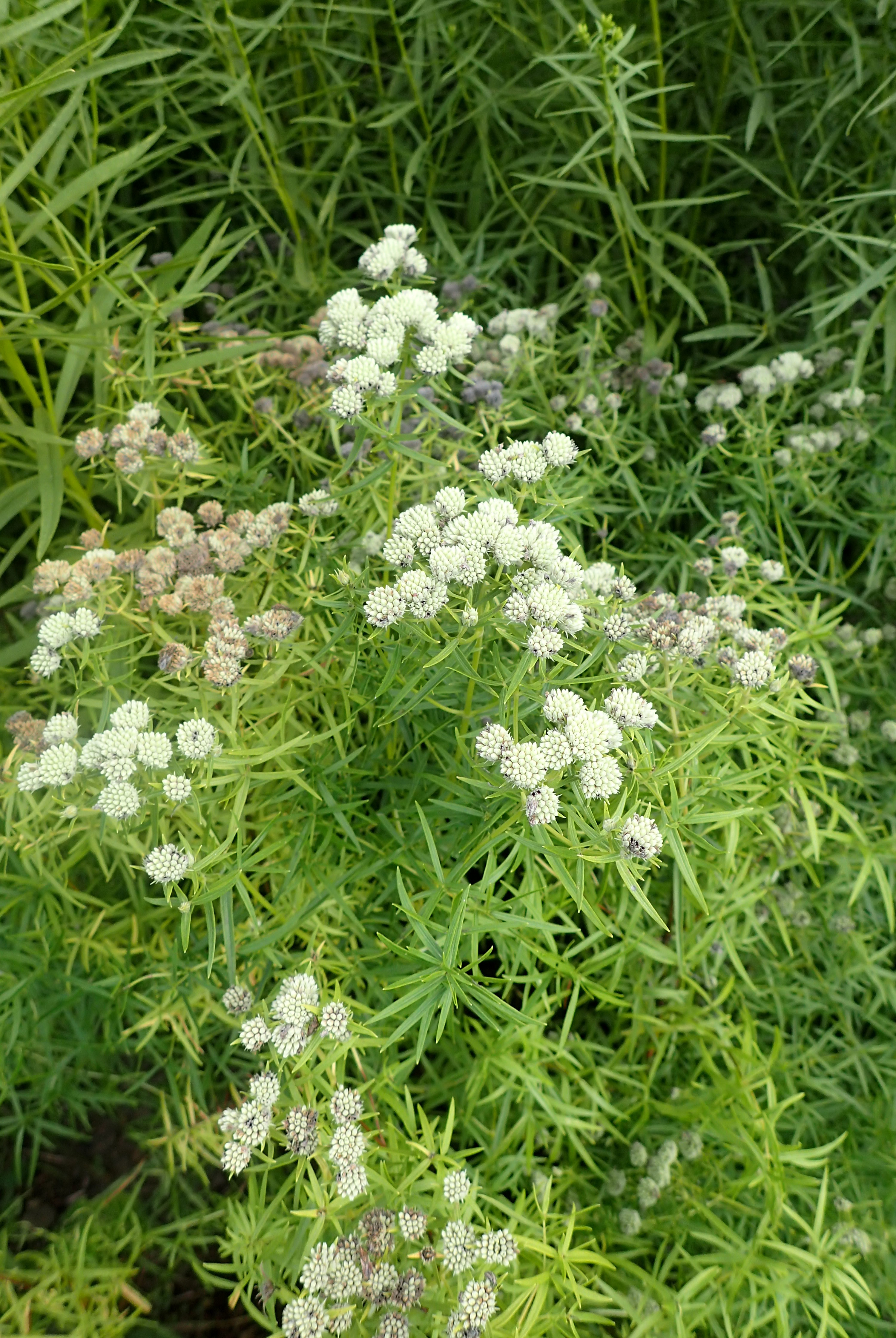 Pycnanthemum tenuifolium at the New York Botanical Garden